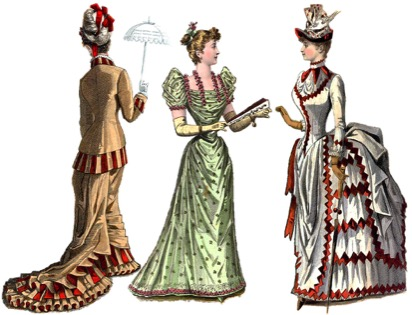 Late, Evening, 2nd Bustle Era